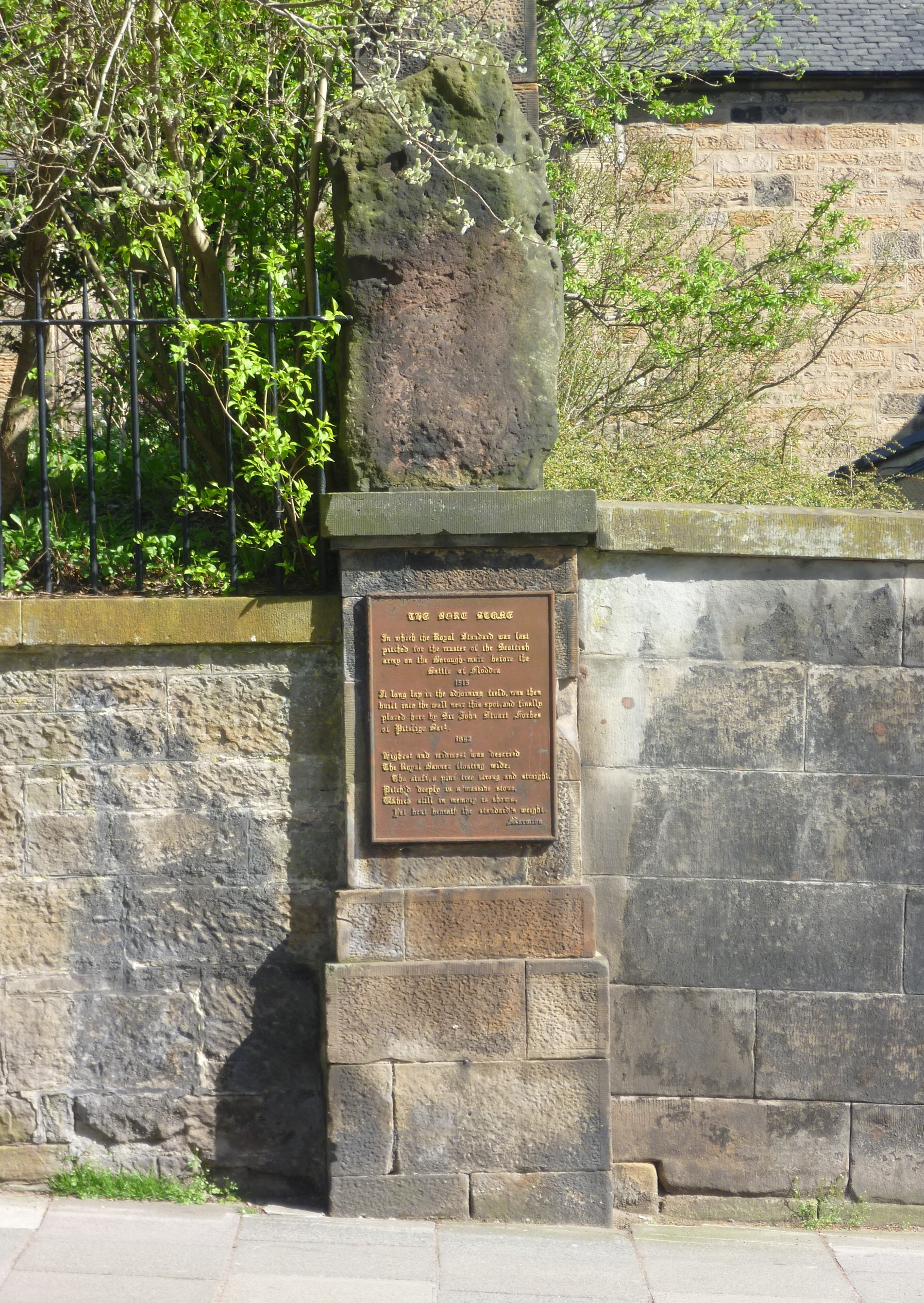 The Bore Stone, or Hare Stane, Morningside Road, Edinburgh An entry in the Burgh Records for 1586 refers to"...the Standand Stane toward Typperlin betuix the lands of Merchonstoun and the [Pow] burne."